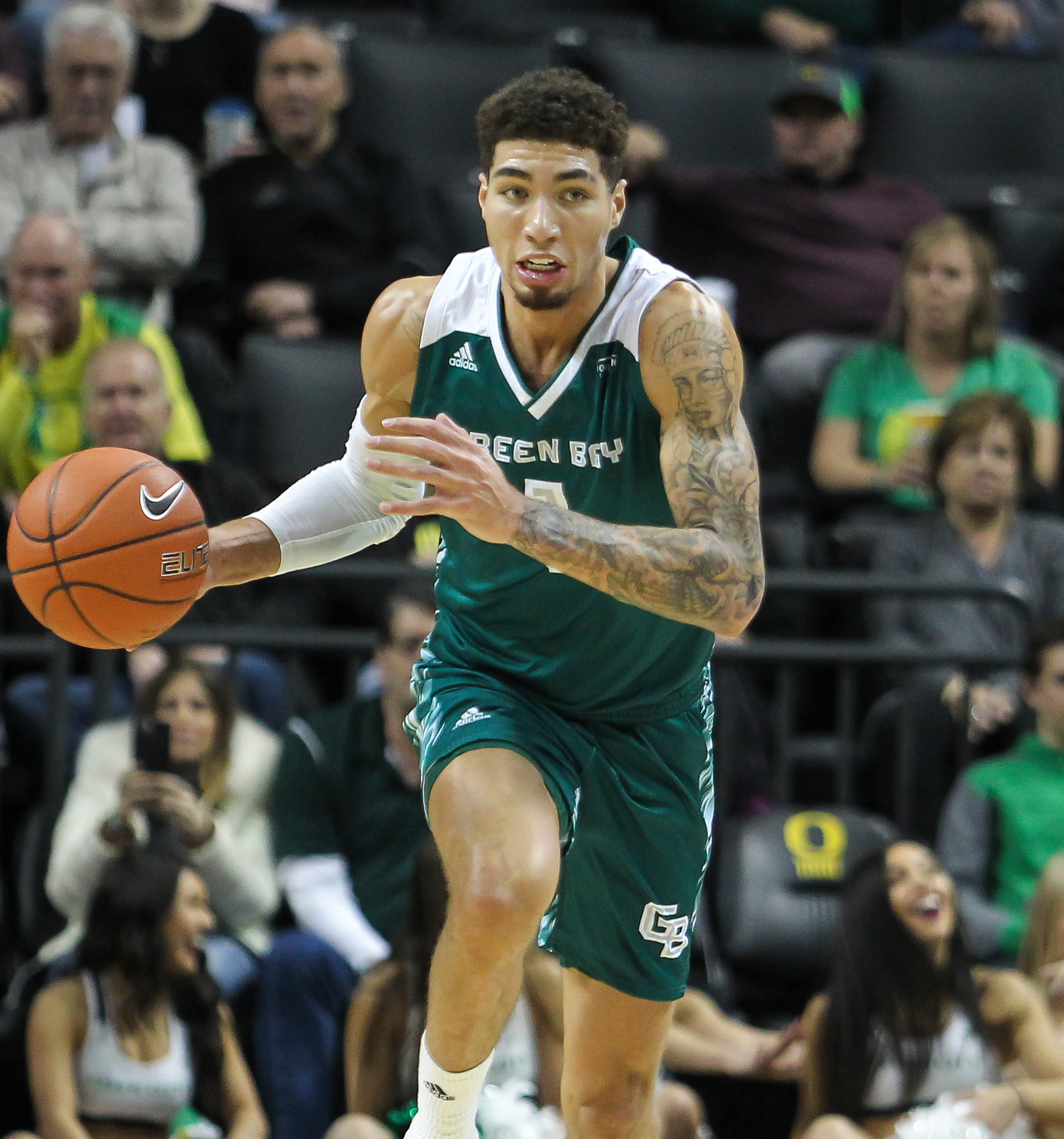 Sandy Cohen plays for UWGB against the Oregon Ducks in the 2K Empire Classic game on November 20, 2018.